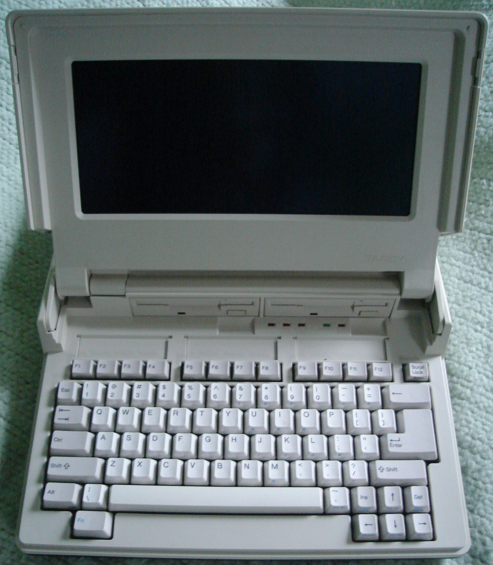 Image of the Tandy 1400 LT Retep412